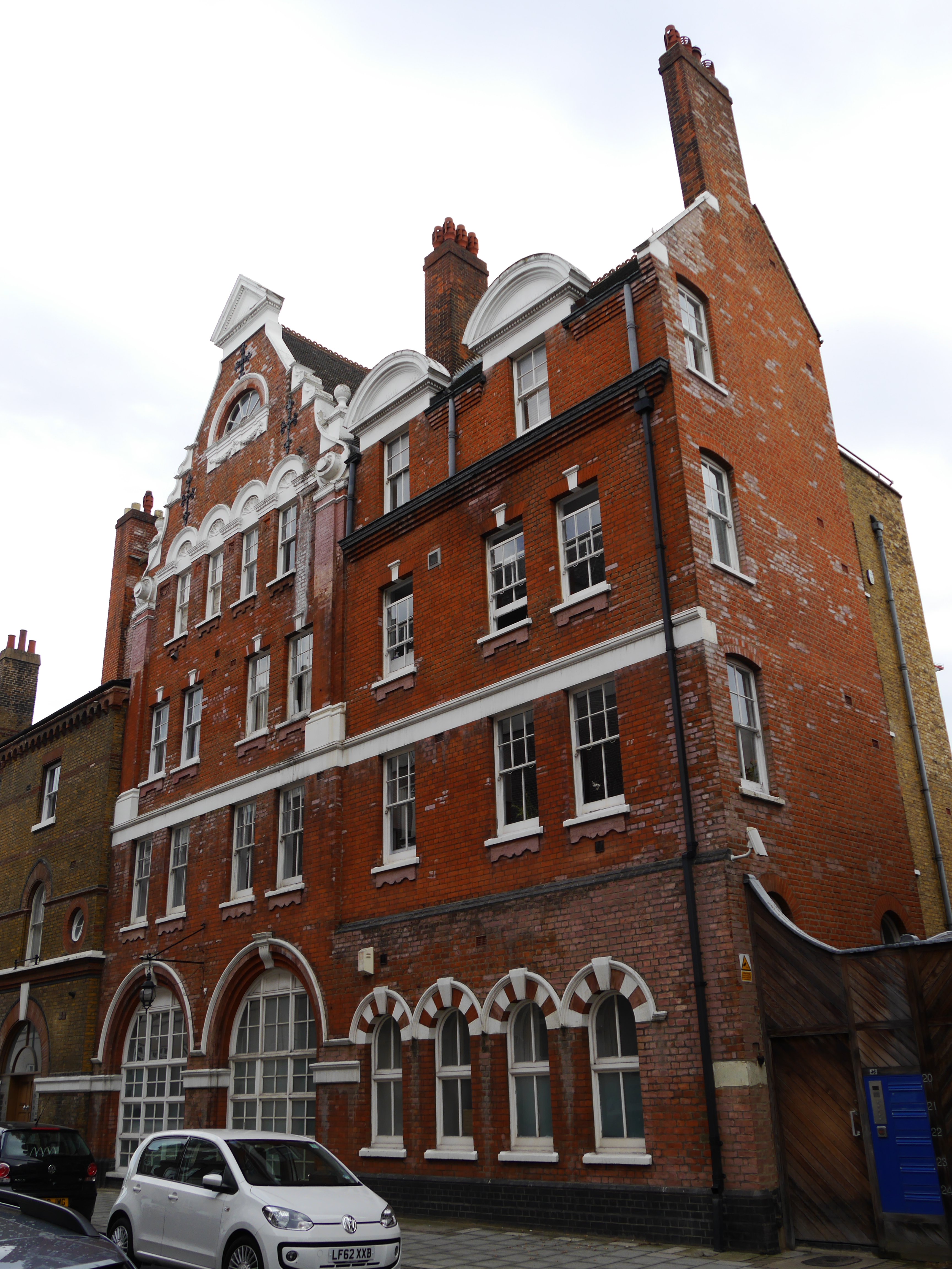 Old Fire Station, Kennington, October 2014